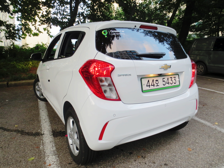 Chevrolet Spark (M400)